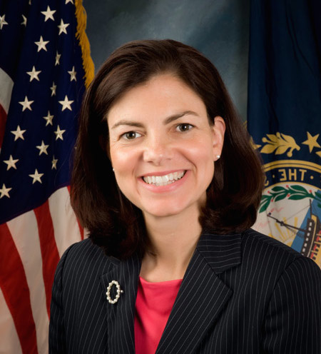 Portrait of United States Senator Kelly Ayotte of New Hampshire.